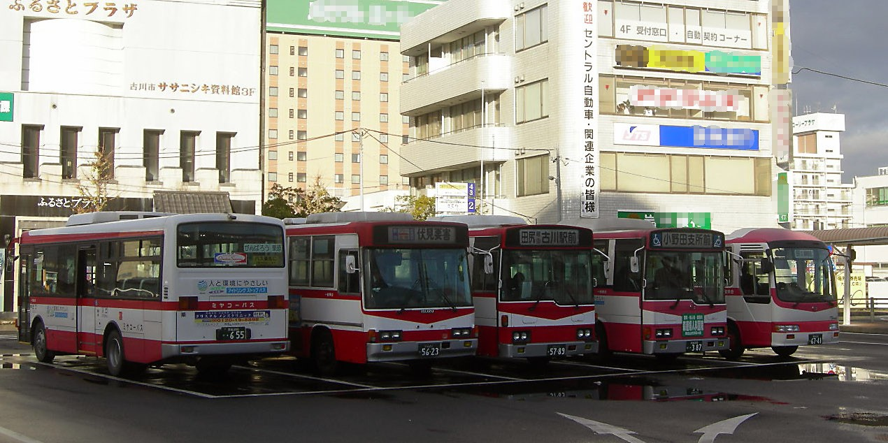 Miyako bus at Furukawa stn.